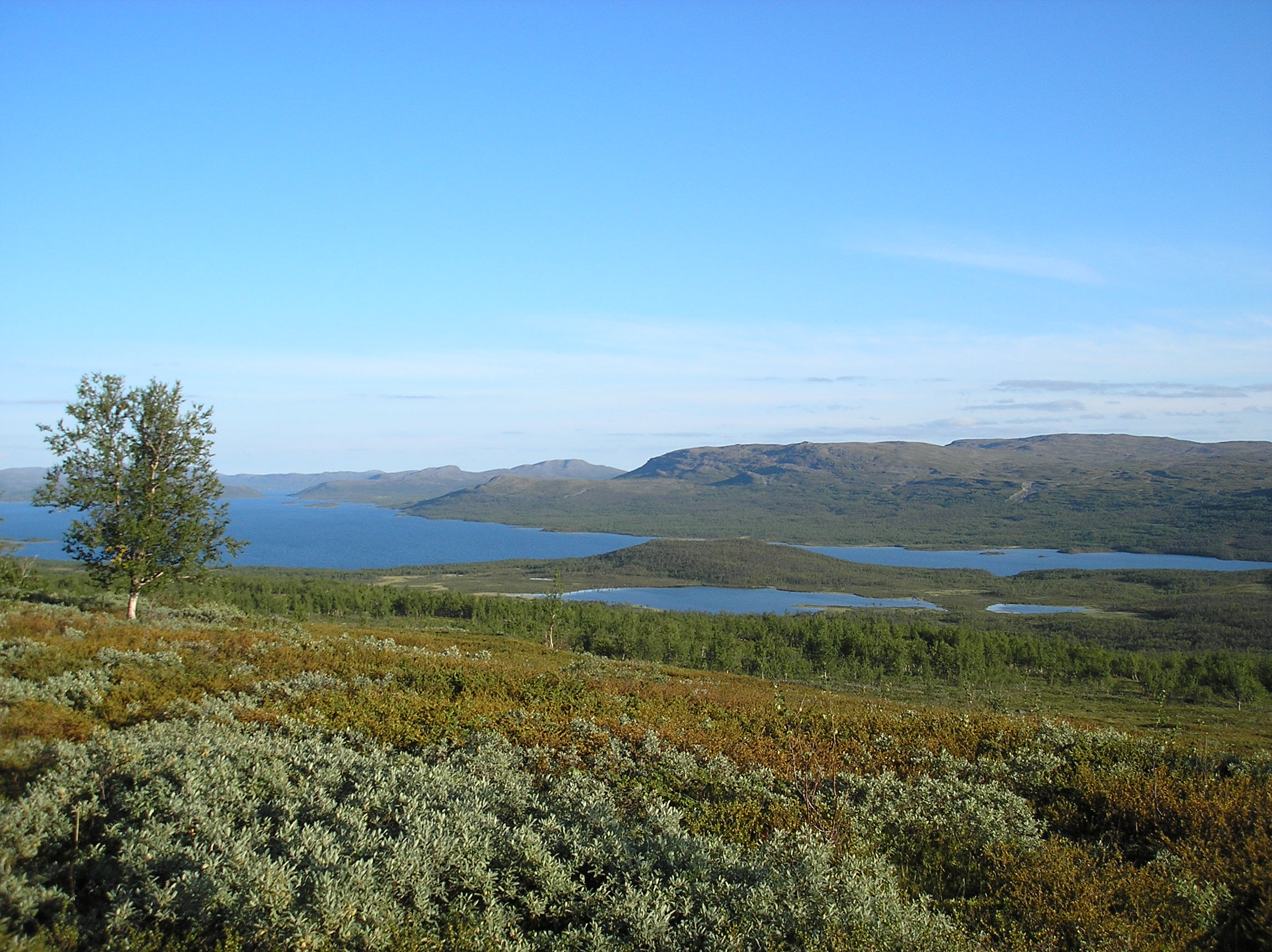 Southern scenery from the slopes of Iso-Malla in Malla Strict Nature Reserve. The fells on the background belong to Sweden. Big lake is Kilpisjärvi with Koltalahti bay on the right.